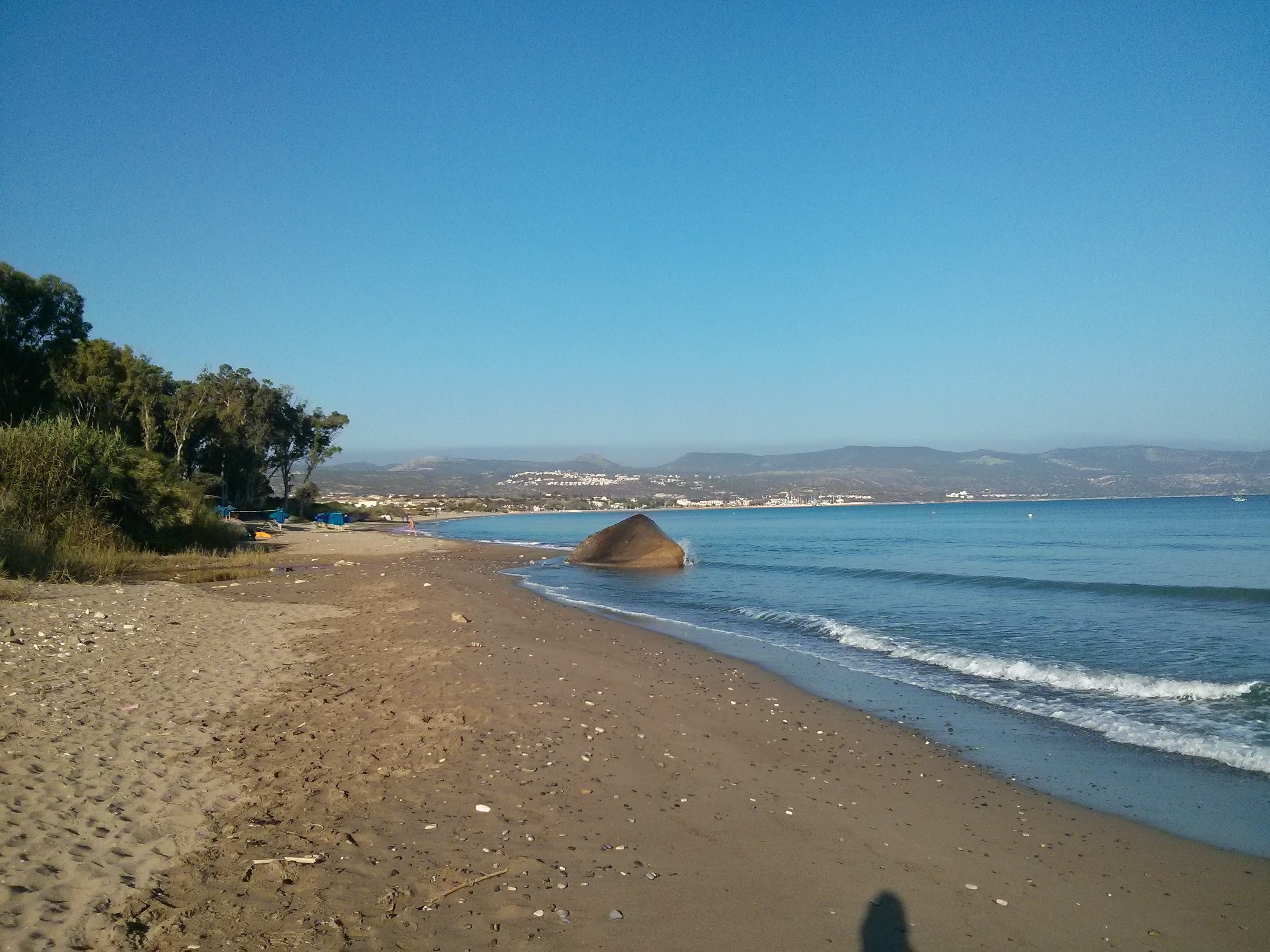 Polis scene